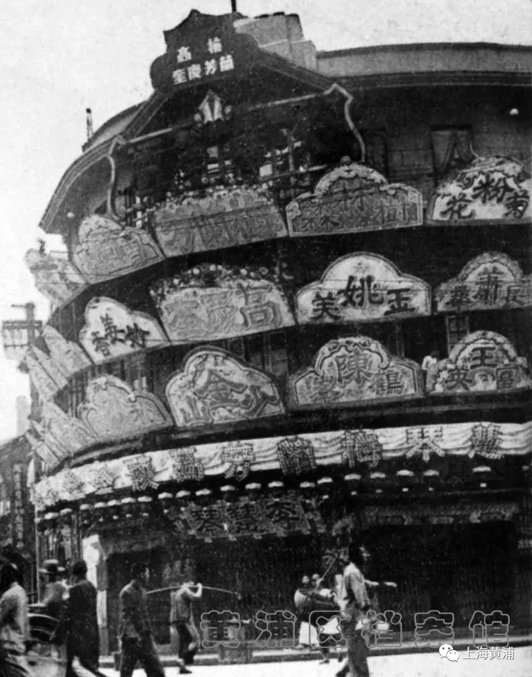 Tianchan Theatre on Fuzhou Road, Shanghai